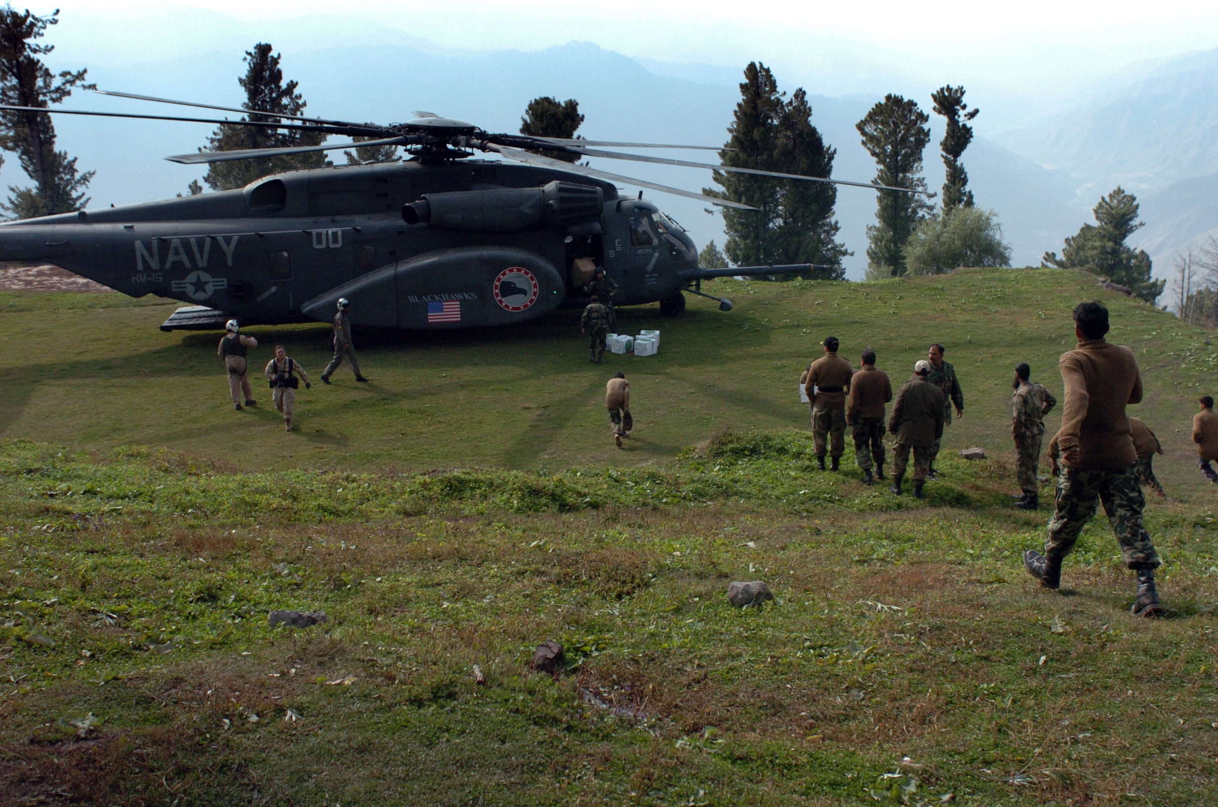 Northern Pakistan (Oct. 17, 2005) - Pakistani soldiers run to unload relief supplies from a U.S. Navy MH-53E Sea Stallion helicopter, assigned to Helicopter Mine Countermeasure Squadron Fifteen (HM-15), in a remote village of Northern Pakistan. The United States government is participating in a multinational humanitarian assistance and support effort led by the Pakistani Government to bring aid to victims of the devastating earthquake that struck the region Oct. 8, 2005. U.S. Navy photo by Photographer's Mate 2nd Class Timothy Smith (RELEASED)